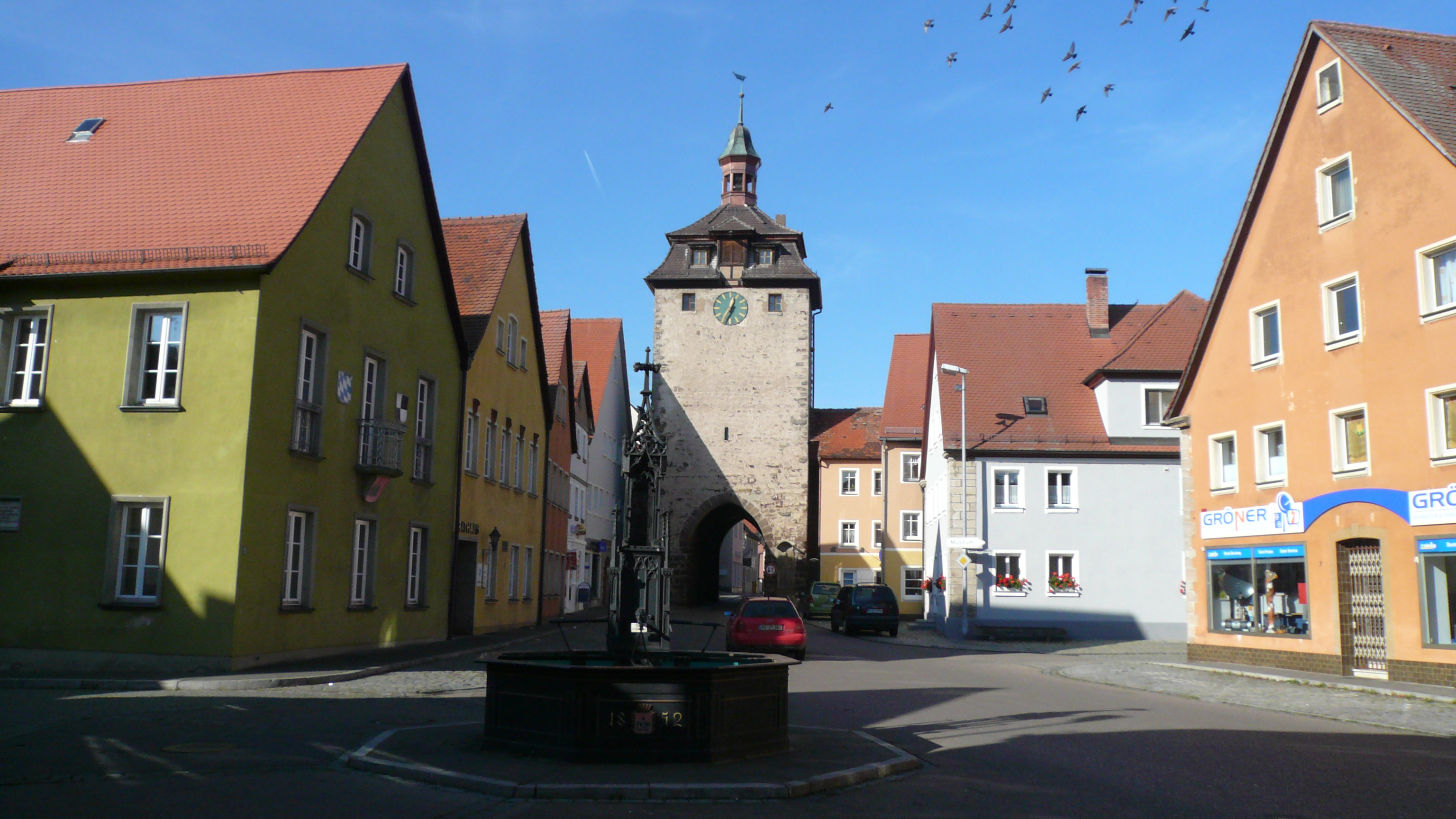 Leutershausen - one of the two medieval town-gates